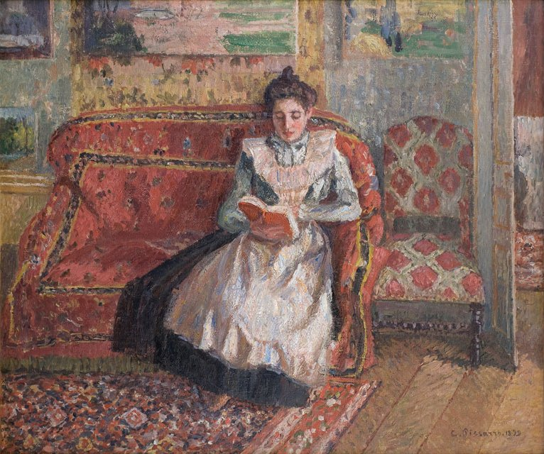 Jeanne Pissarro, Called Cocotte, Reading by Camille Pissarro, 1899, oil on canvas